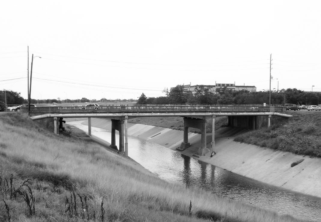 Almeda Road Bridge over Bray's Bayou, Houston, Texas